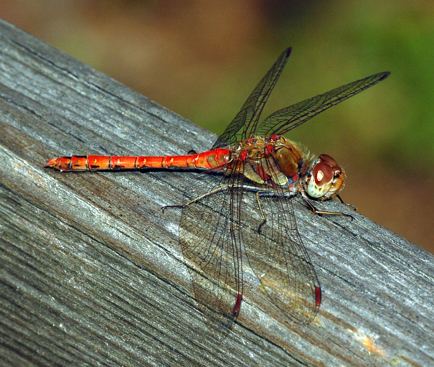 Sympetrum striolatum, Schwanheim Dune, Frankfurt/Main, Germany